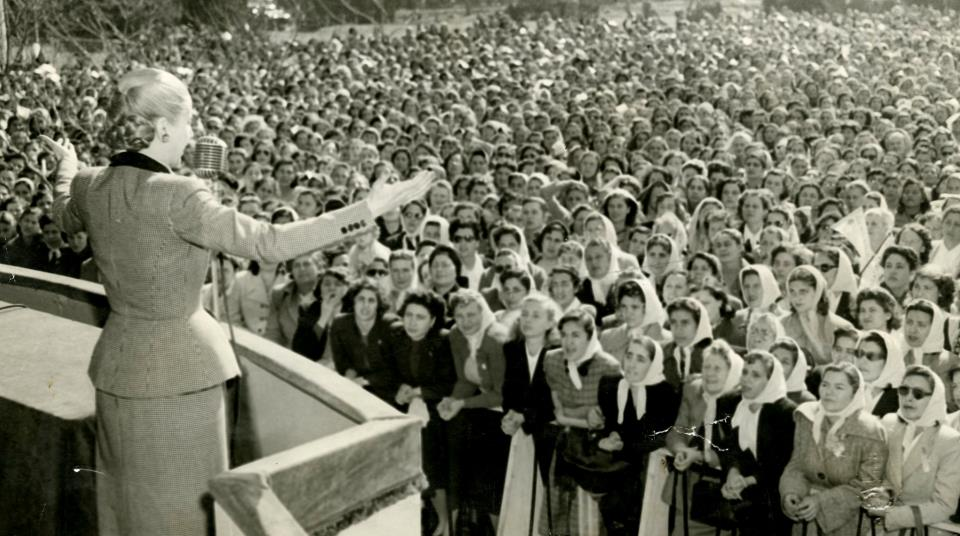 Ley Derechos Políticos de la Mujer.